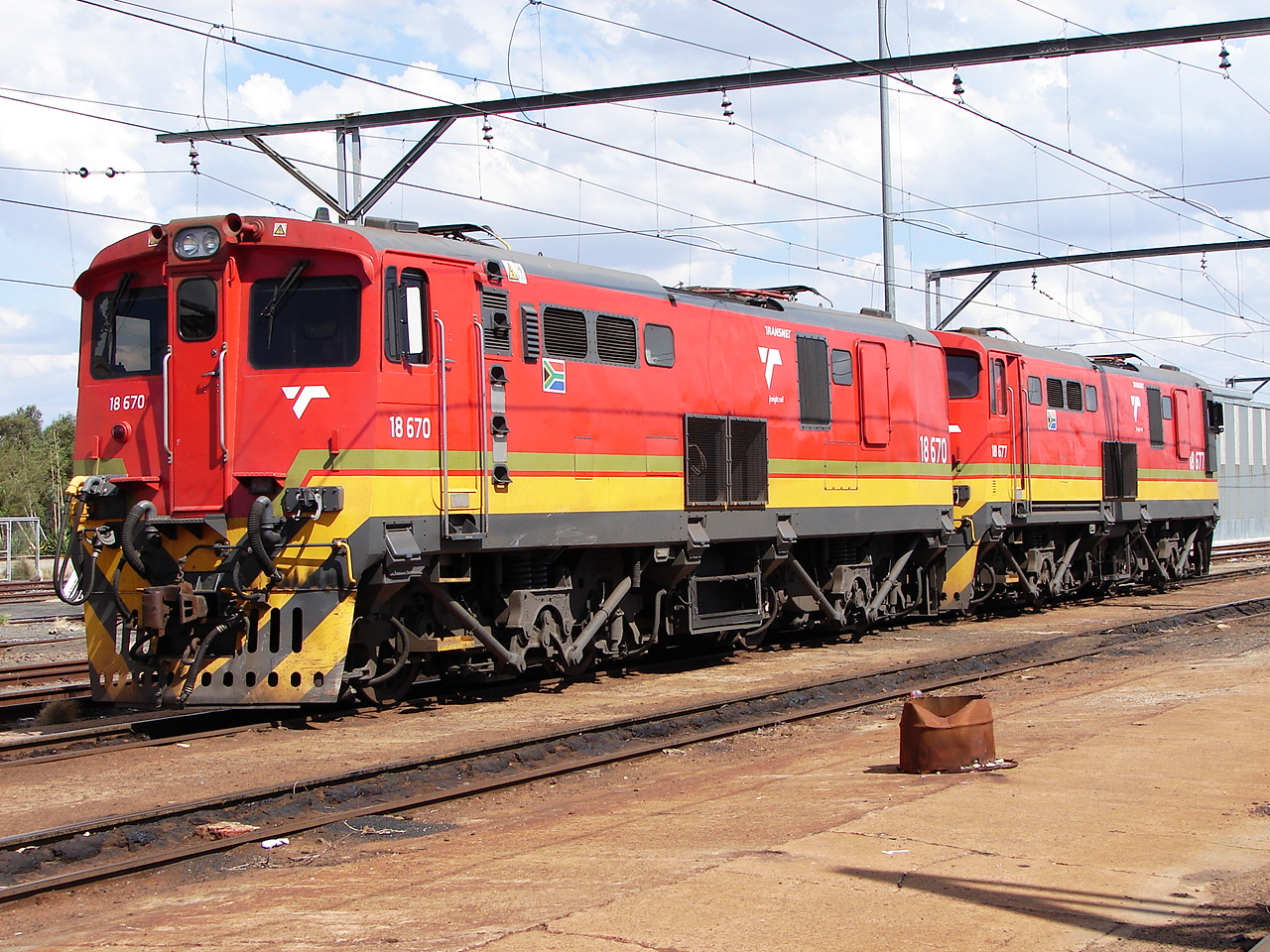 TFR Class 18E Series 2 18-670Location: Beaufort West, Western CapeHistory: Rebuilt in 2011 from Class 6E1 Series 5 E1571